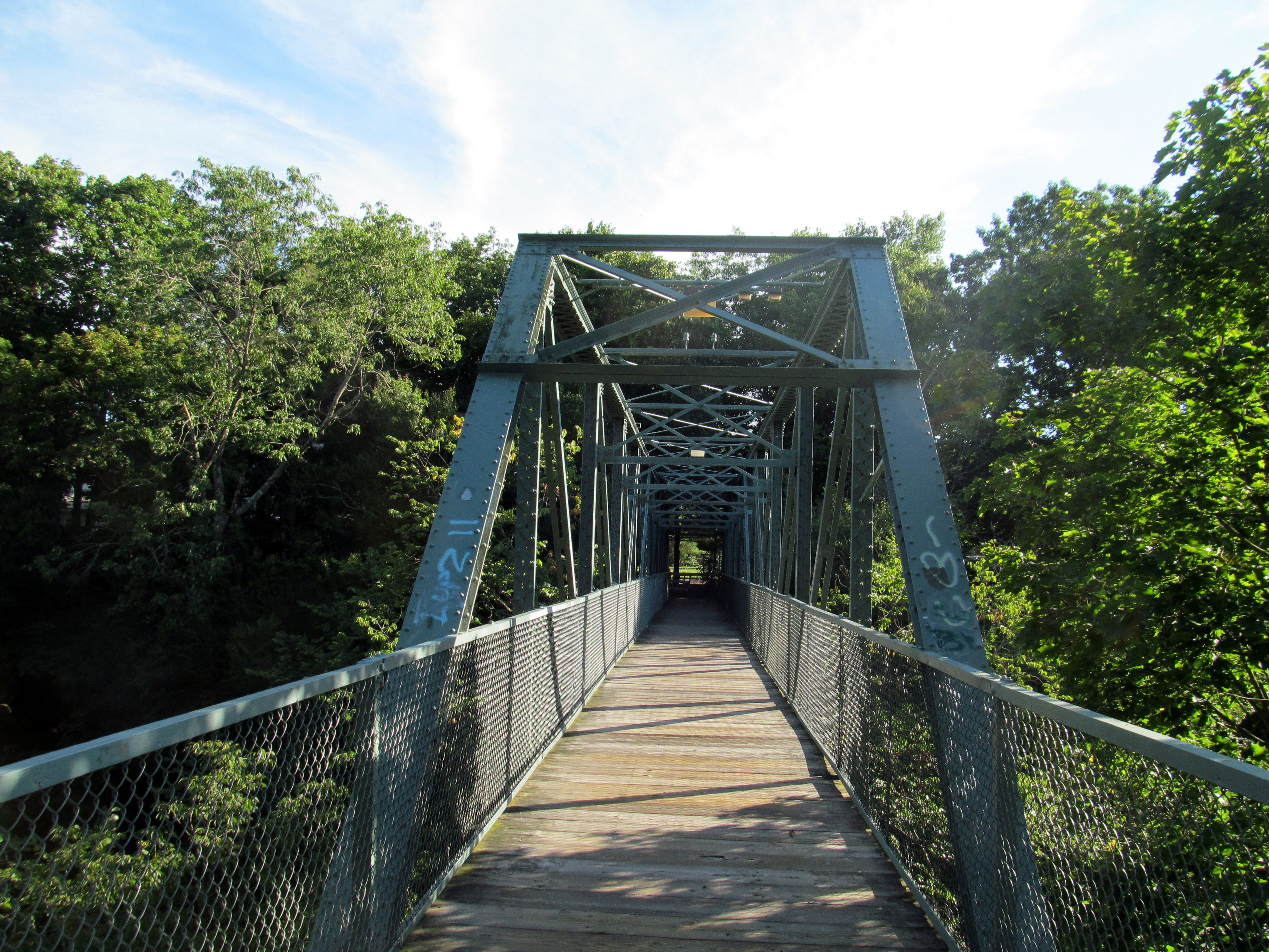 Pedestrian bridge over the Willimantic River and the rail yard in Willimantic, Connecticut.